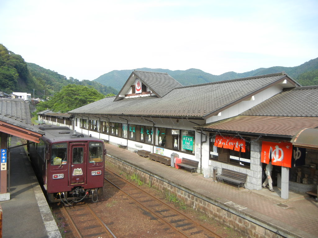 Mizunuma-Hot-spring. 桐生市にある水沼温泉センター, Kiryu.